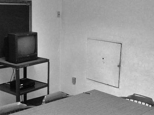 Cadaver Field